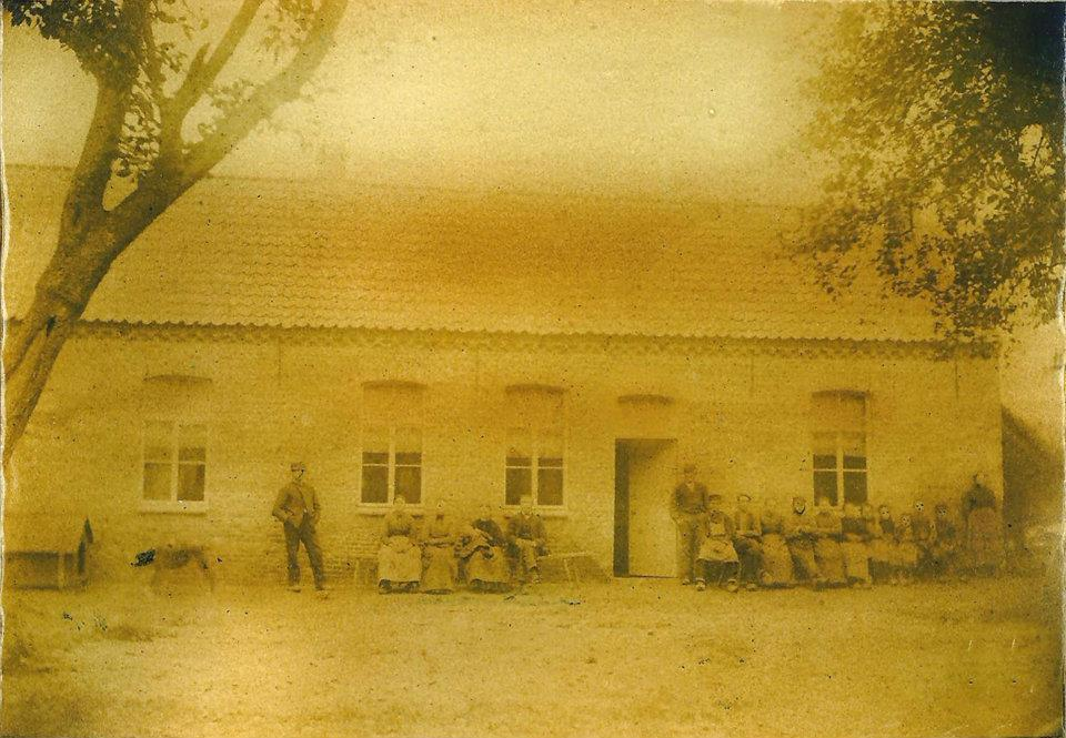 Old Picture of a cafe called "In den Akker".